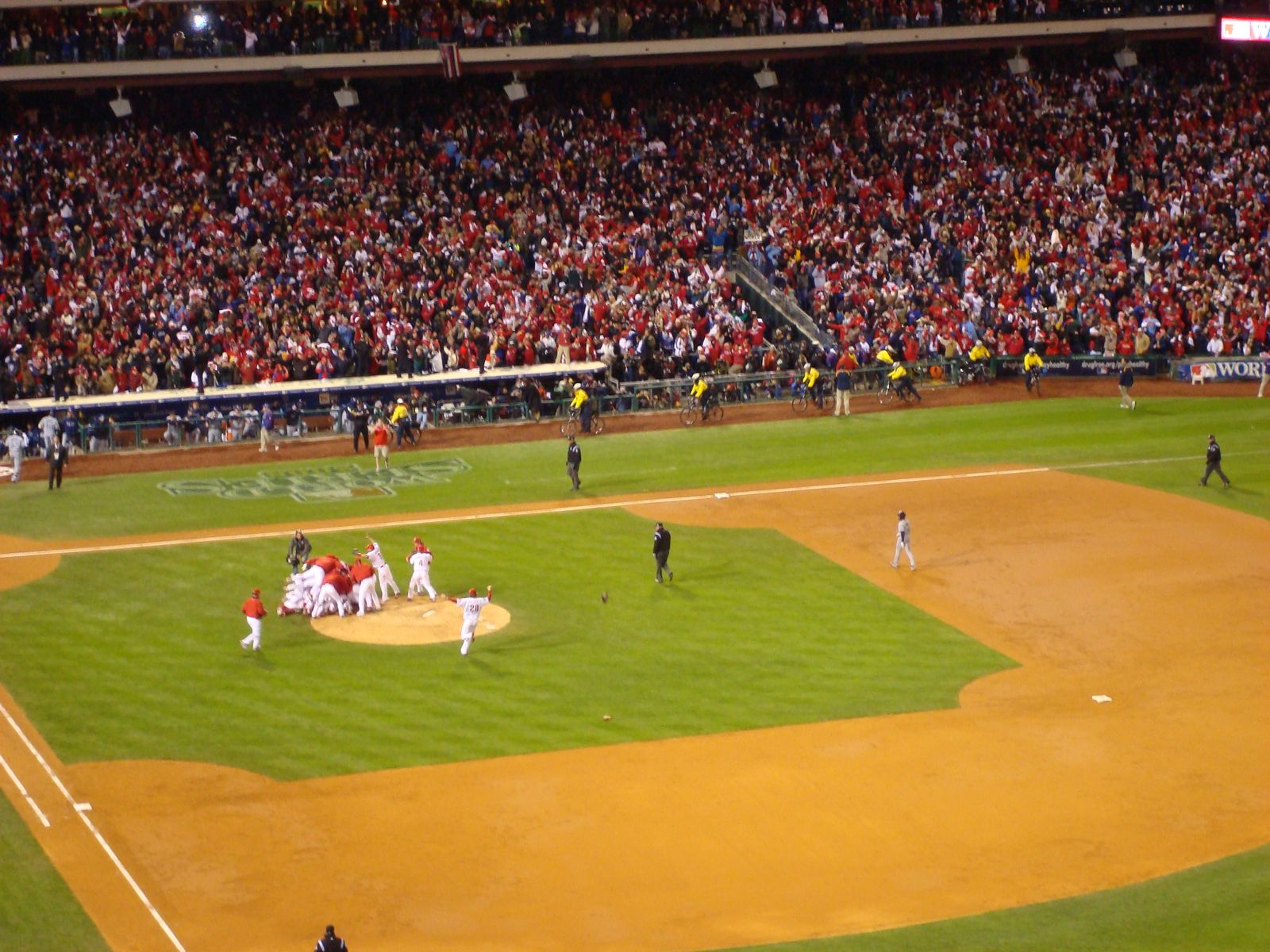 2008 World Series. The Philadelphia Phillies are world champions, and rush the pitchers mound to celebrate.